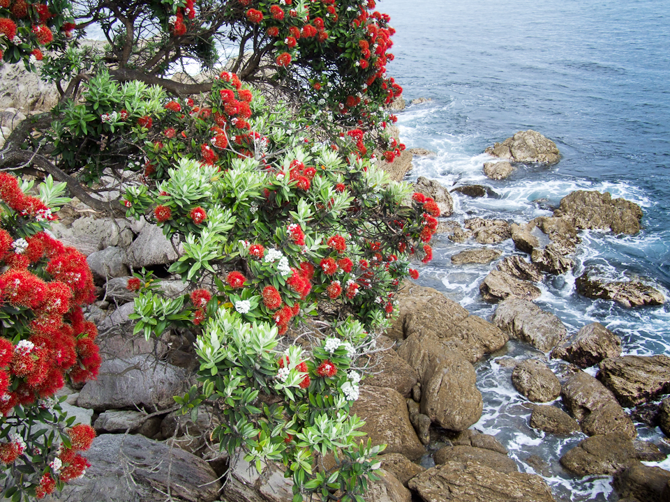 One of the rock pools around Mt. Maunganui, a native Pohutukawa tree hanging over.